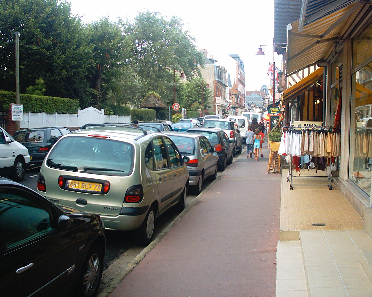 Rue des Bains, Houlgate in spring 2004.